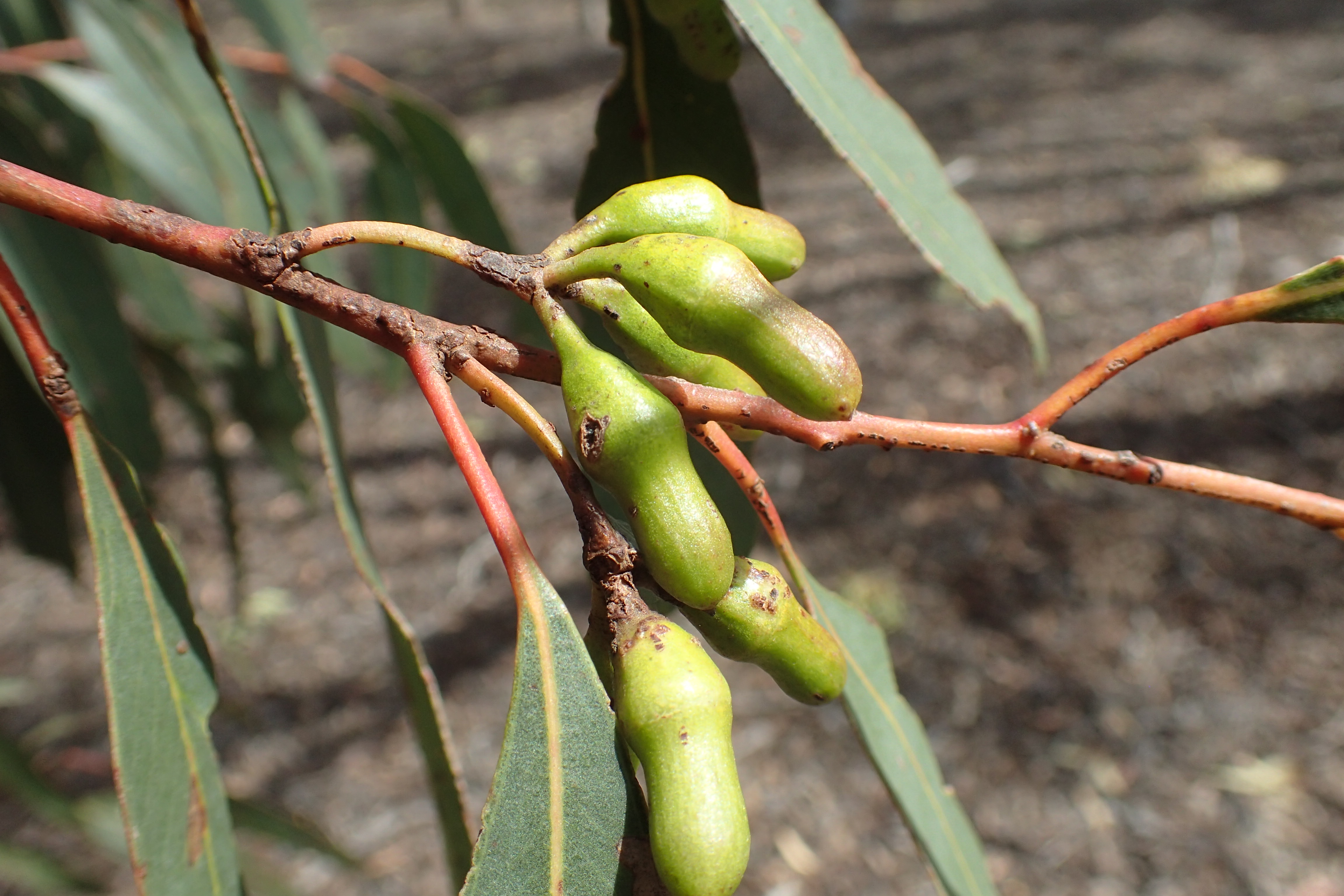 Flower buds of Eucalyptus astringens in Helms Arboretum, near Esperance, W.A.